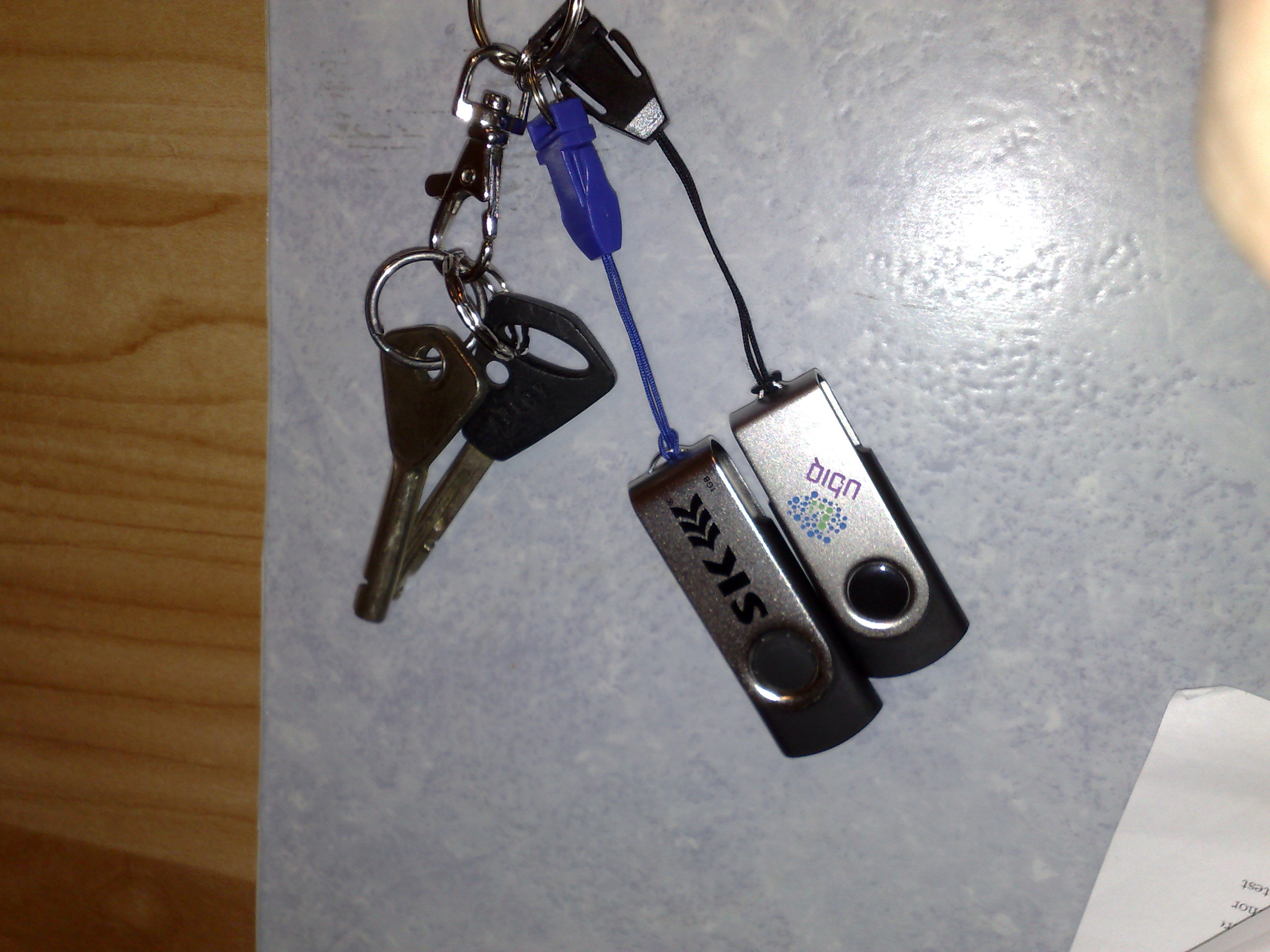 ABLOY keys